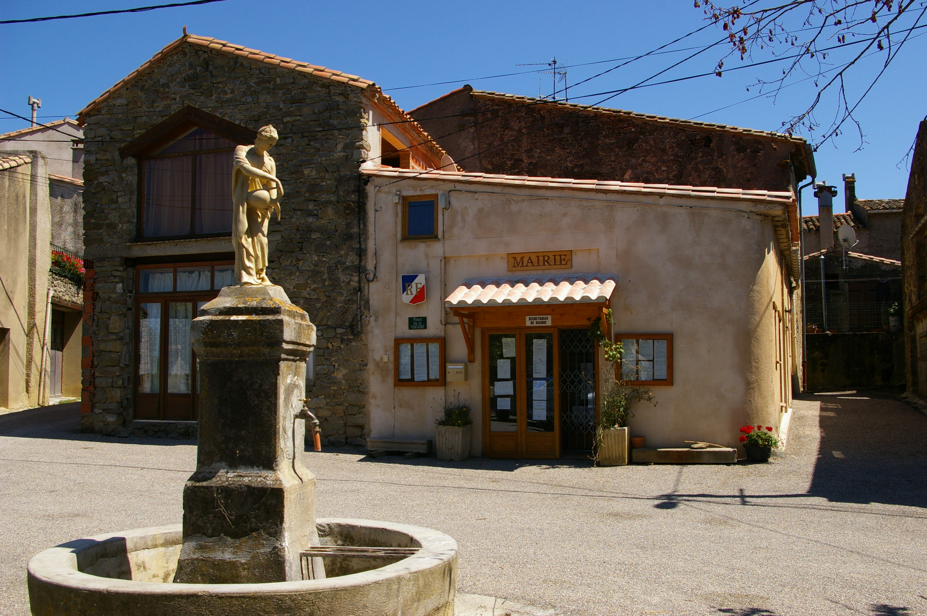 Town hall of Greffeil, Dept. Aude, France.